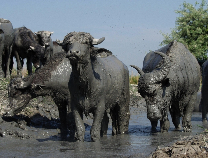 Water buffalos (Bubalus bubalis), Mekszikópuszta, Hungary